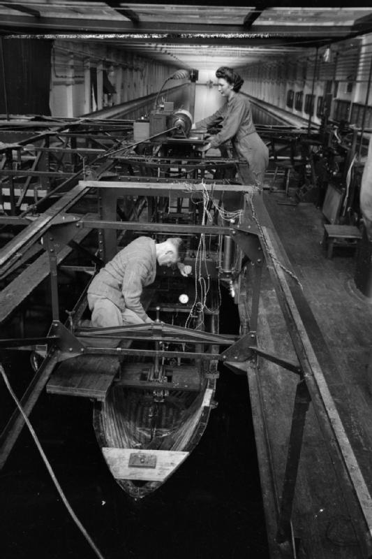 National Physical Laboratory- Science and Technology in Wartime, Teddington, Middlesex, England, UK, 1944 In the Ship Research Department at the National Physical Laboratory, two technicians connect the recording apparatus to a ship model in the test tank. The apparatus will record all possible movements of the model in different tests, the results of which will lead to recommendations for improving the efficiency of the design.